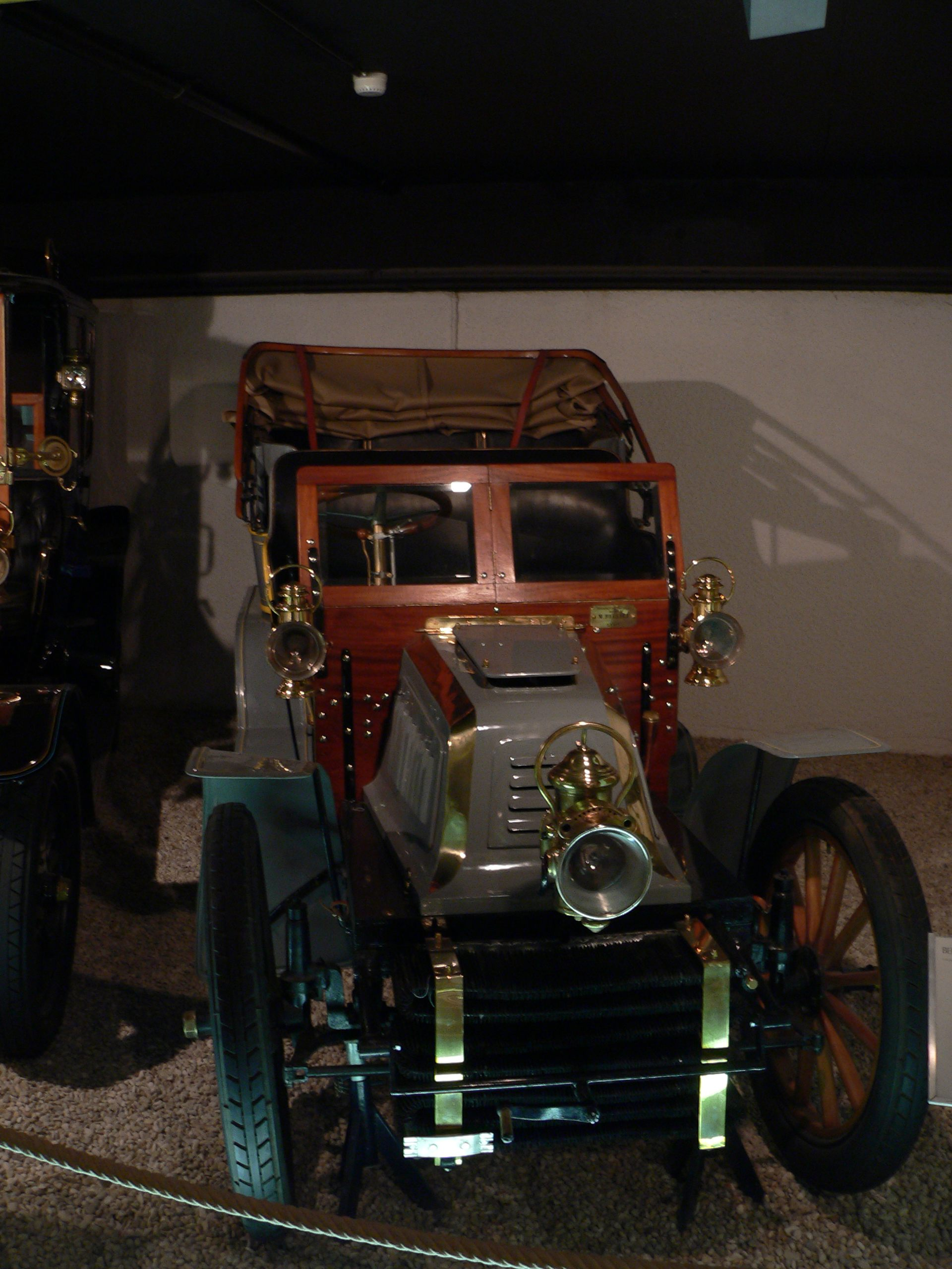 Berliet